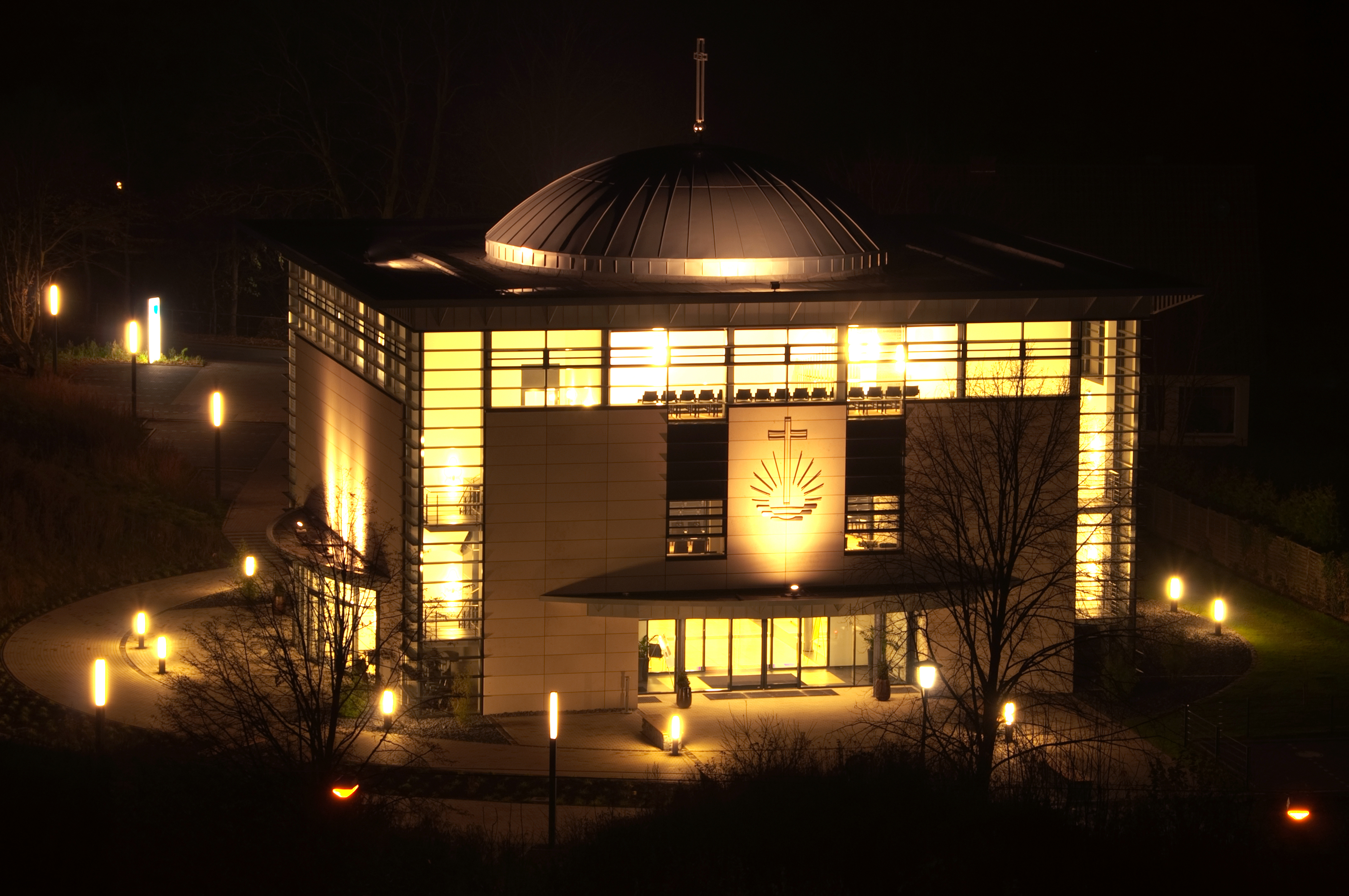 New Apostolic Church in Bad Oeynhausen, Germany - year: 2012 - Night Scene